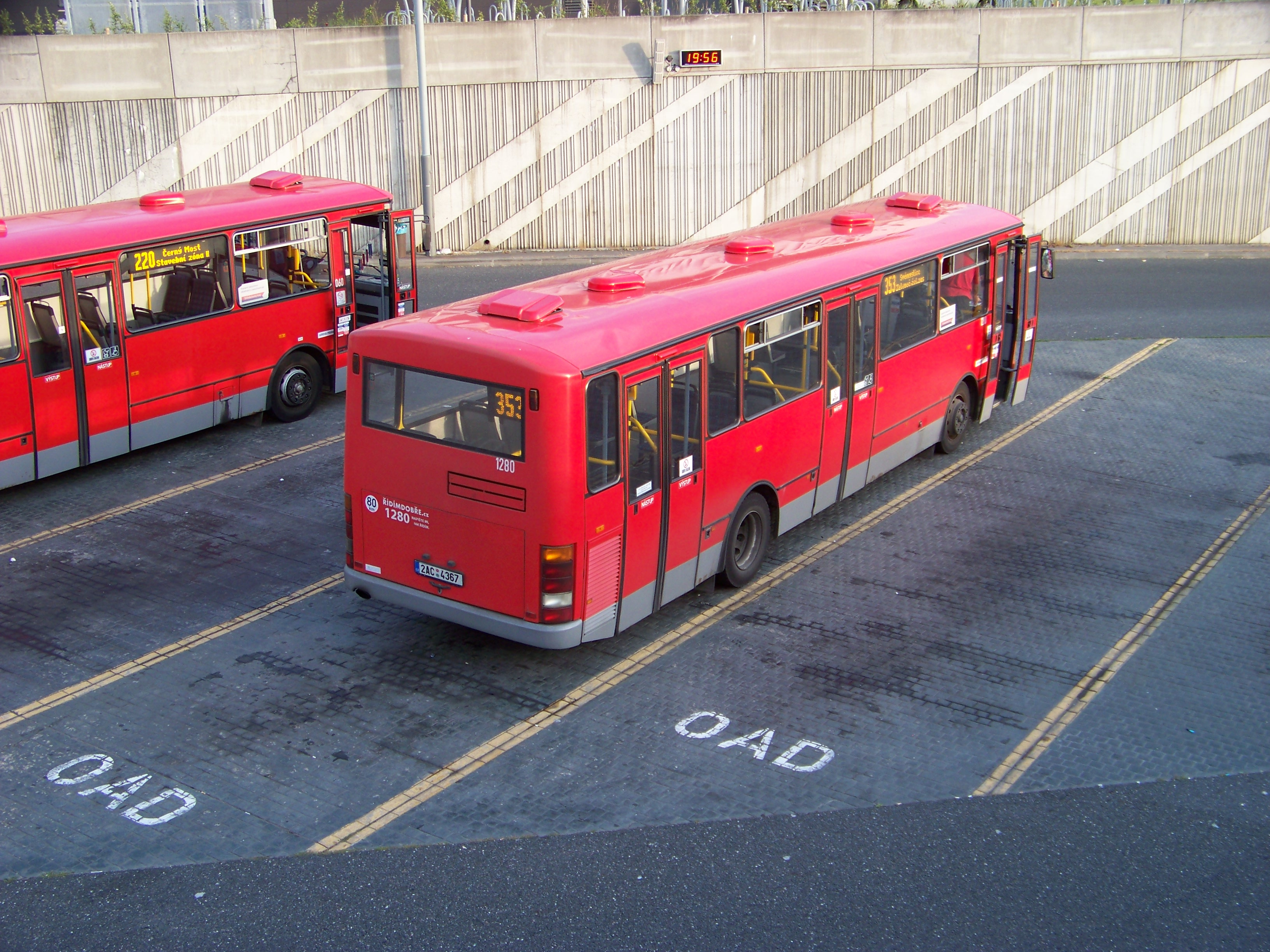 Prague-Černý Most. Černý Most station, buses Karosa B 952 and Karosa B 941 of Arriva Praha.